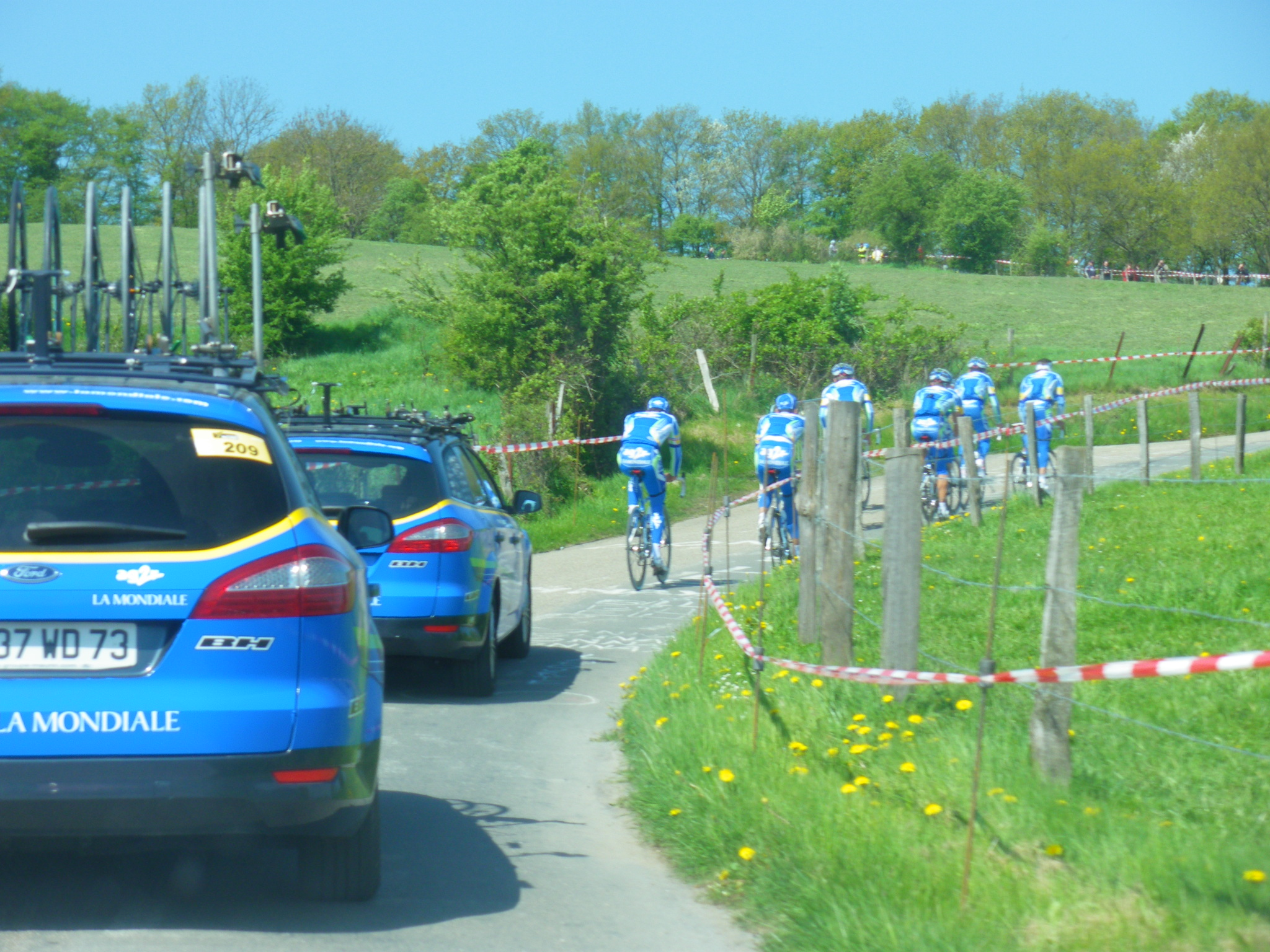 none